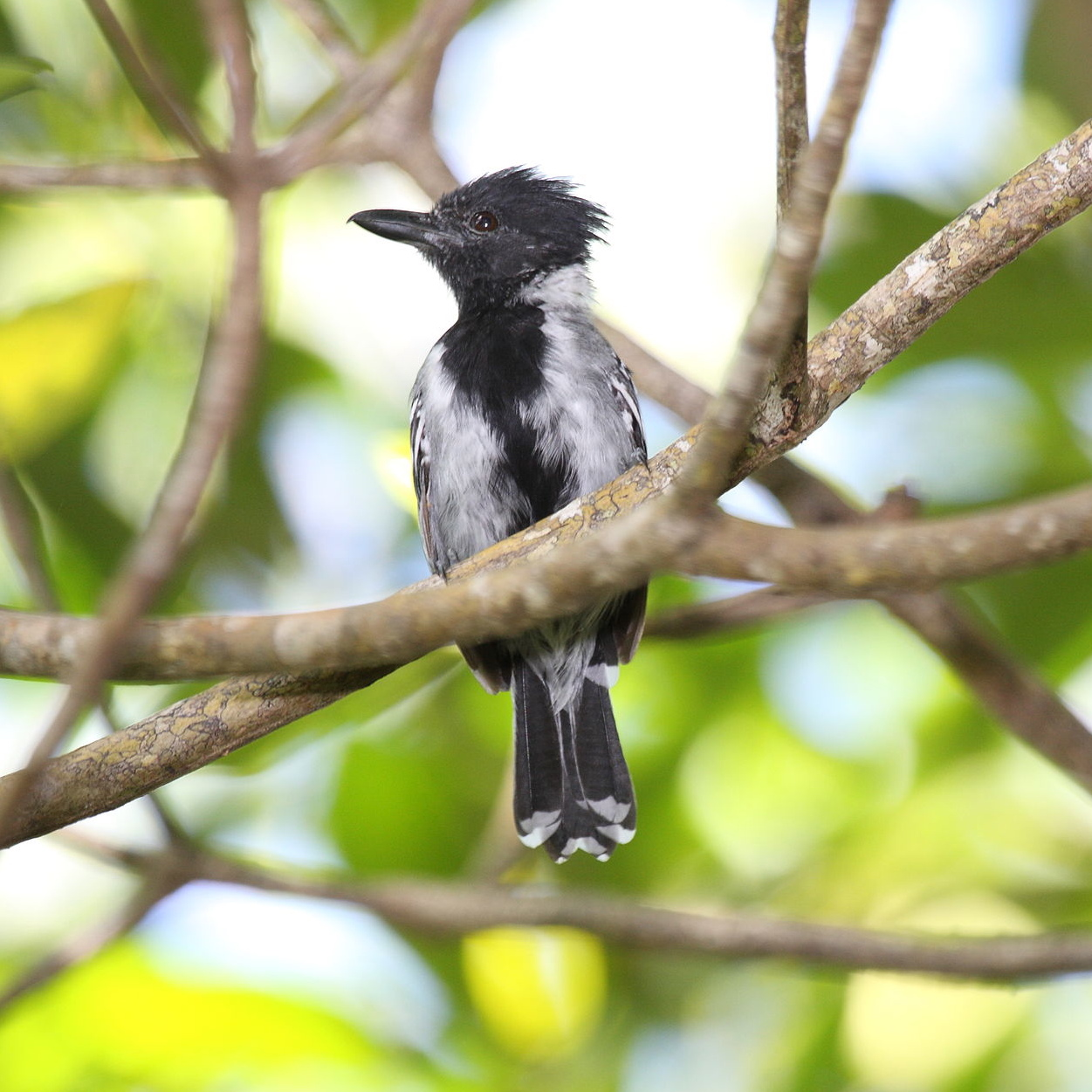 Black-crested Antshrike Sakesphorus canadensis male Trinidad and Tobago